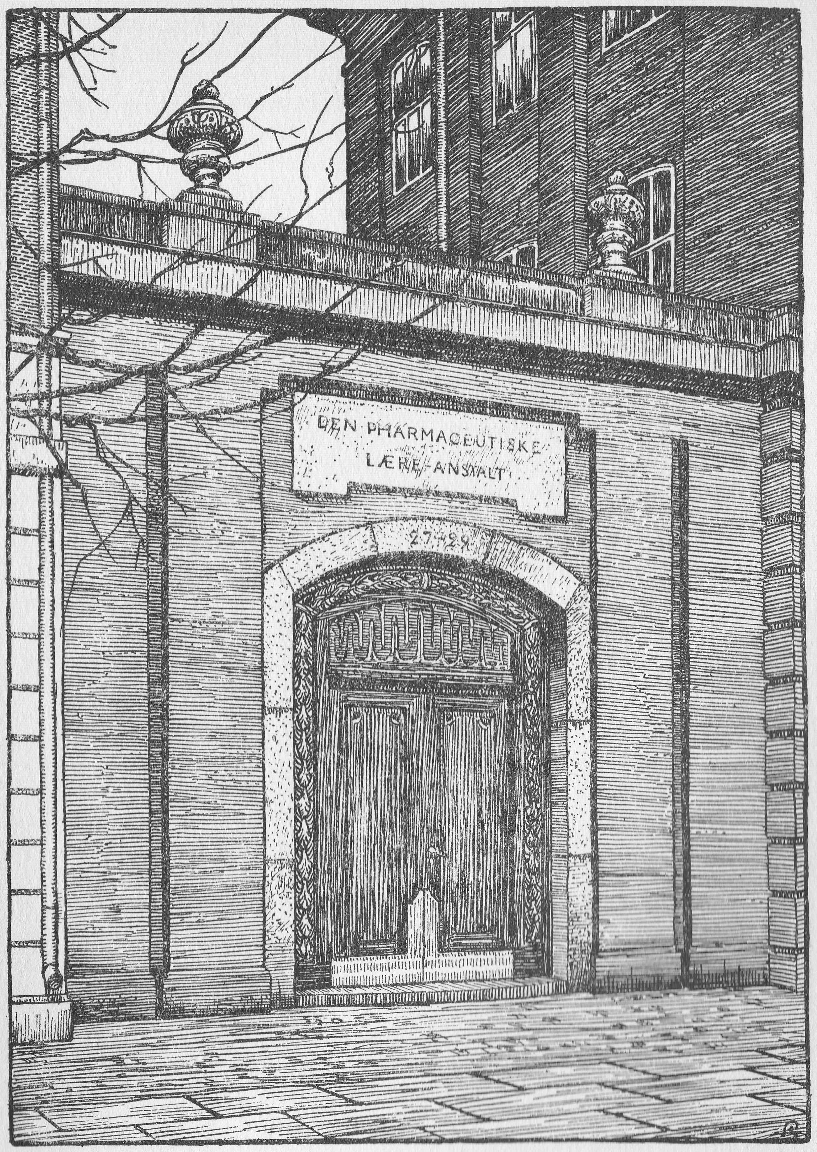 The entrance to Den Pharmaceutiske Læreanstalt (The Pharmaceutical College) created by Andreas Clemmensen at Stockholmsgade in Østerbro in Copenhagen. Today a modern narrow building has been build here.